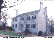 Picture of Zachary Taylor's childhood home in Louisville, Kentucky.